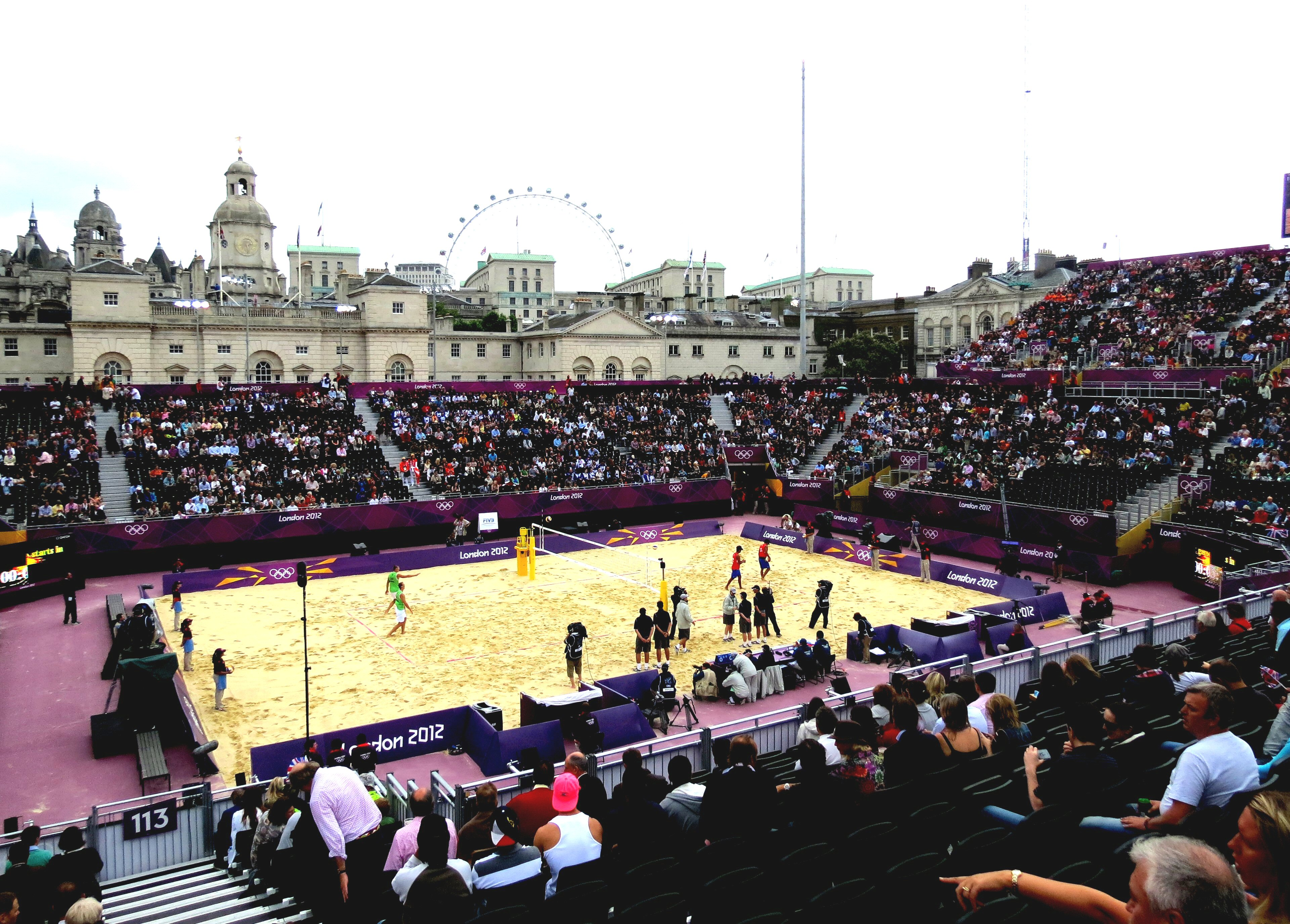 The iconic Beach Volley Ball stadium at the London 2012 Olympics in Horse Guards Parade, London